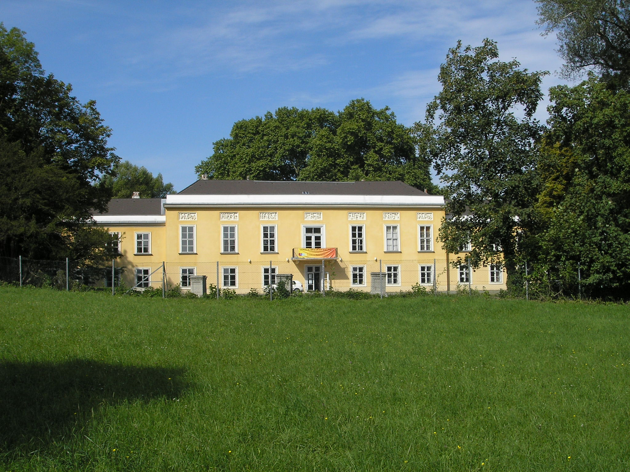 Image of the park at Schloß Pötzleinsdorf and the Schloss.